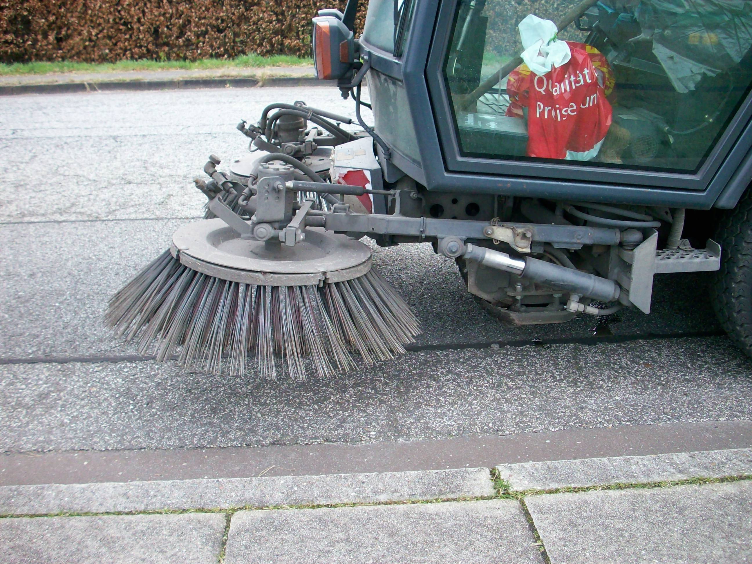 Street sweeper in Hamburg, Germany.